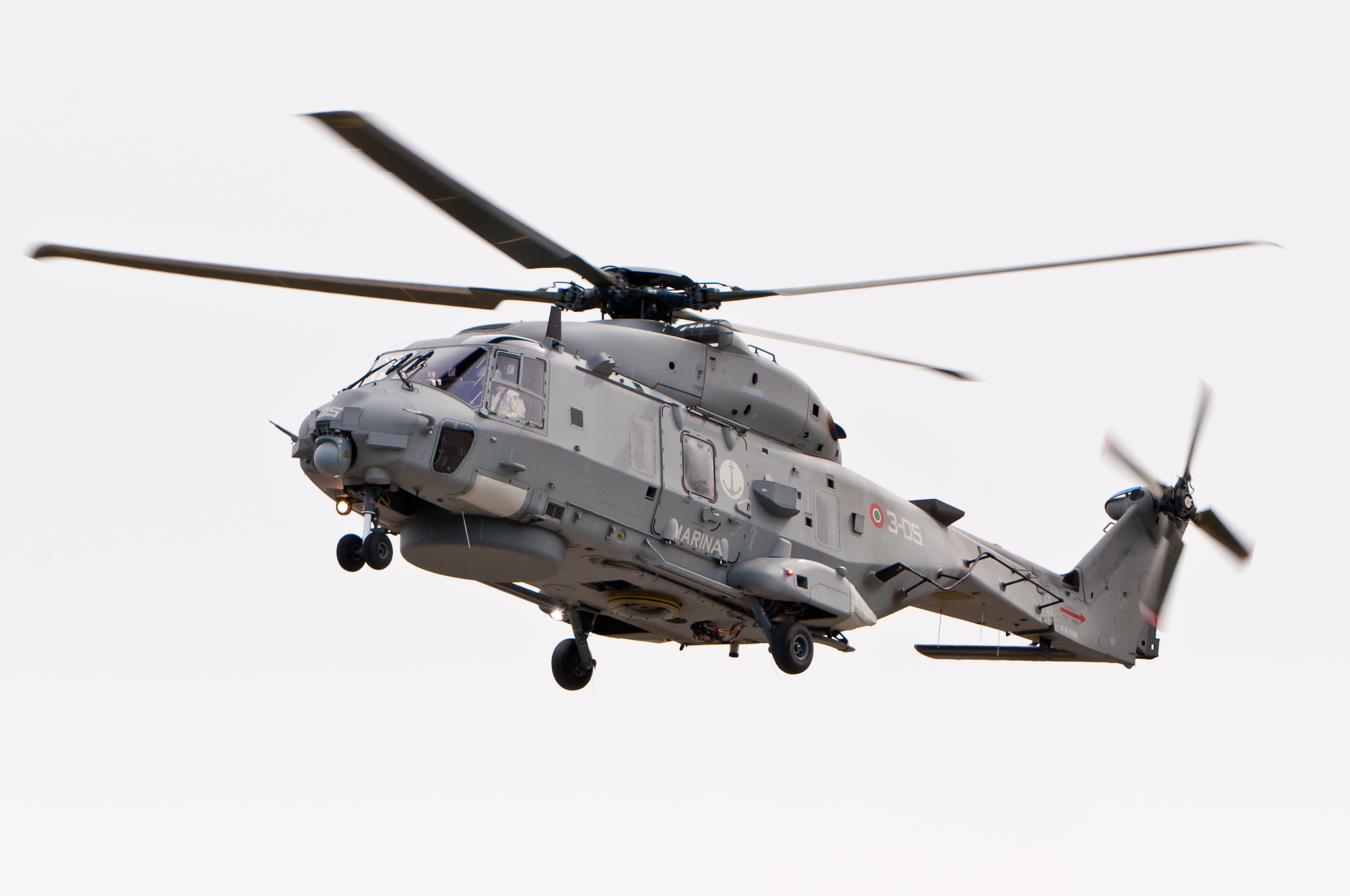 NH Industries NH-90 NFH (cn 1042, reg. MM81581) belonging to the Italian Navy, flying a display at ILA Berlin Air Show 2012.